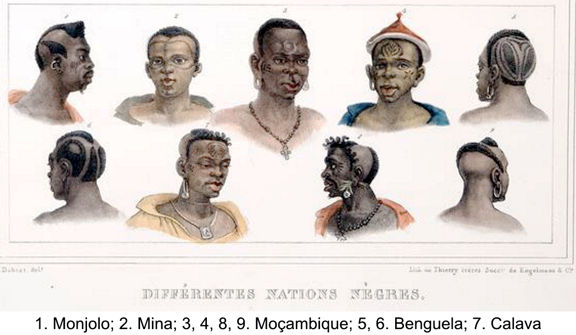 Different Negro Nations. Slaves in Brazil circa 1830. New York Public Library Division: Humanities and Social Sciences Library / Print Collection, Miriam and Ira D. Wallach Division of Art, Prints and Photographs Description: 3 v. facsim., map, 2 plans, port. 50 cm. and 6 portfolios (153 plates) (incl. ports.) 59 cm. Item/Page/Plate Number: II/Pl. 36 Medium: Lithographs -- Hand-colored Specific Material Type: Prints